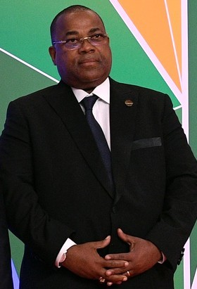 Official welcoming ceremony before the reception on behalf of the President of Russia in honour of the heads of state and government of the countries participating in the Russia-Africa Summit. With Prime Minister of Gabon Julien Nkoghe Bekale and his spouse. Photo: RIA Novosti